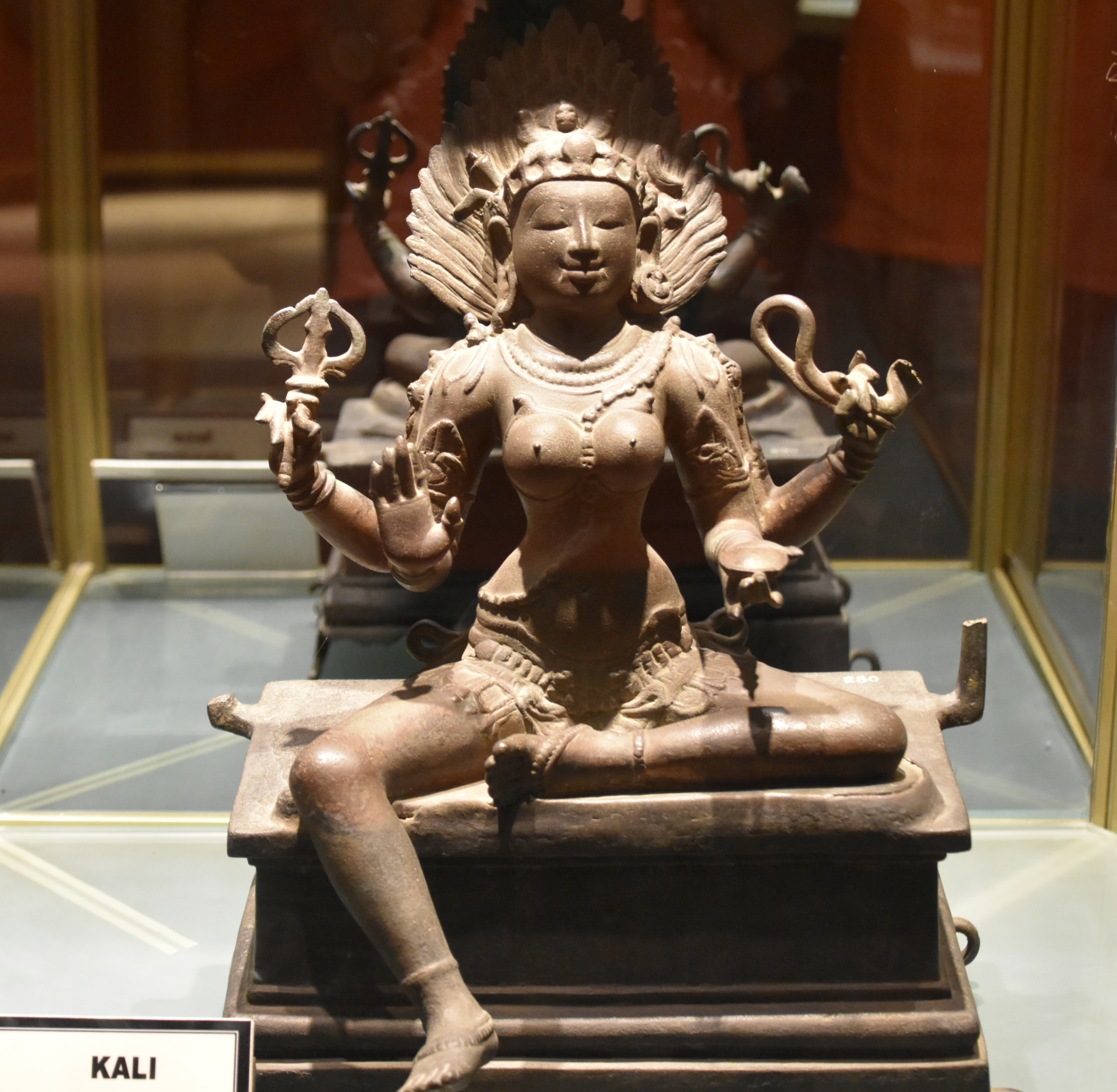 Kali is the ferocious form of Durga goddess in Hinduism